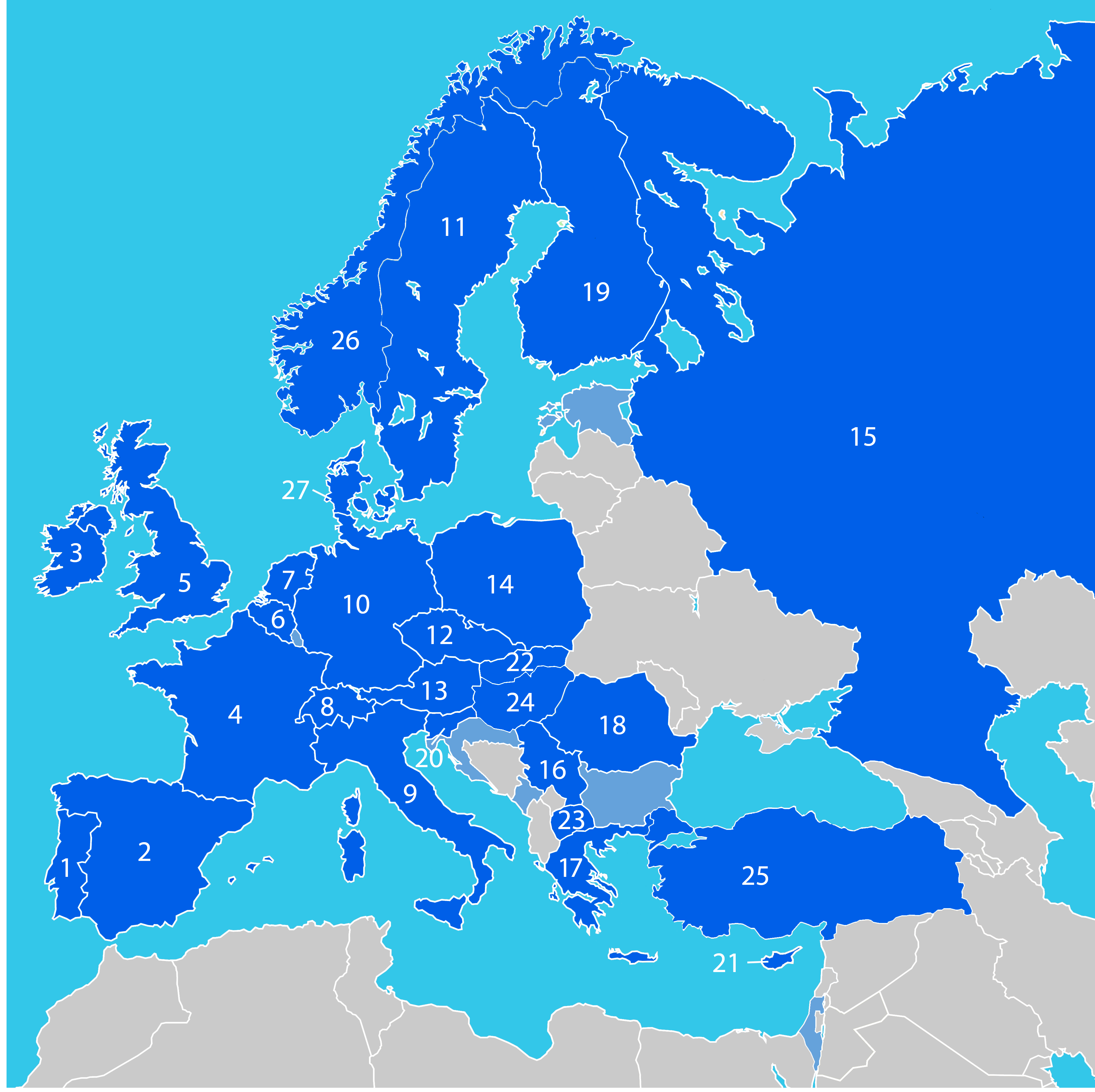 A map of all the countries which have active delegates in the EYCN